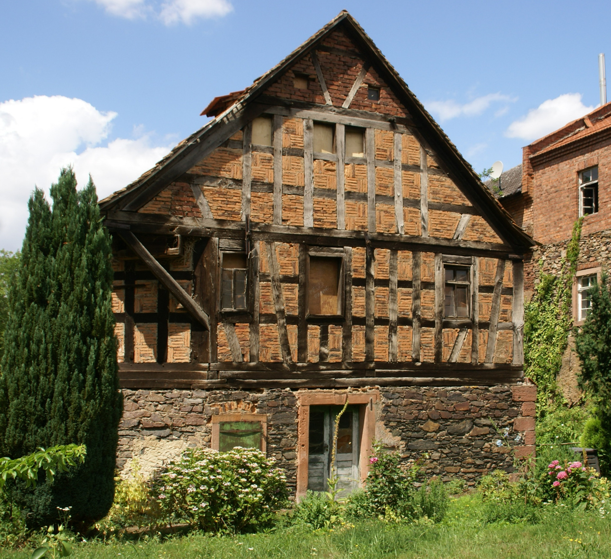 Former oil mill in Alzenau